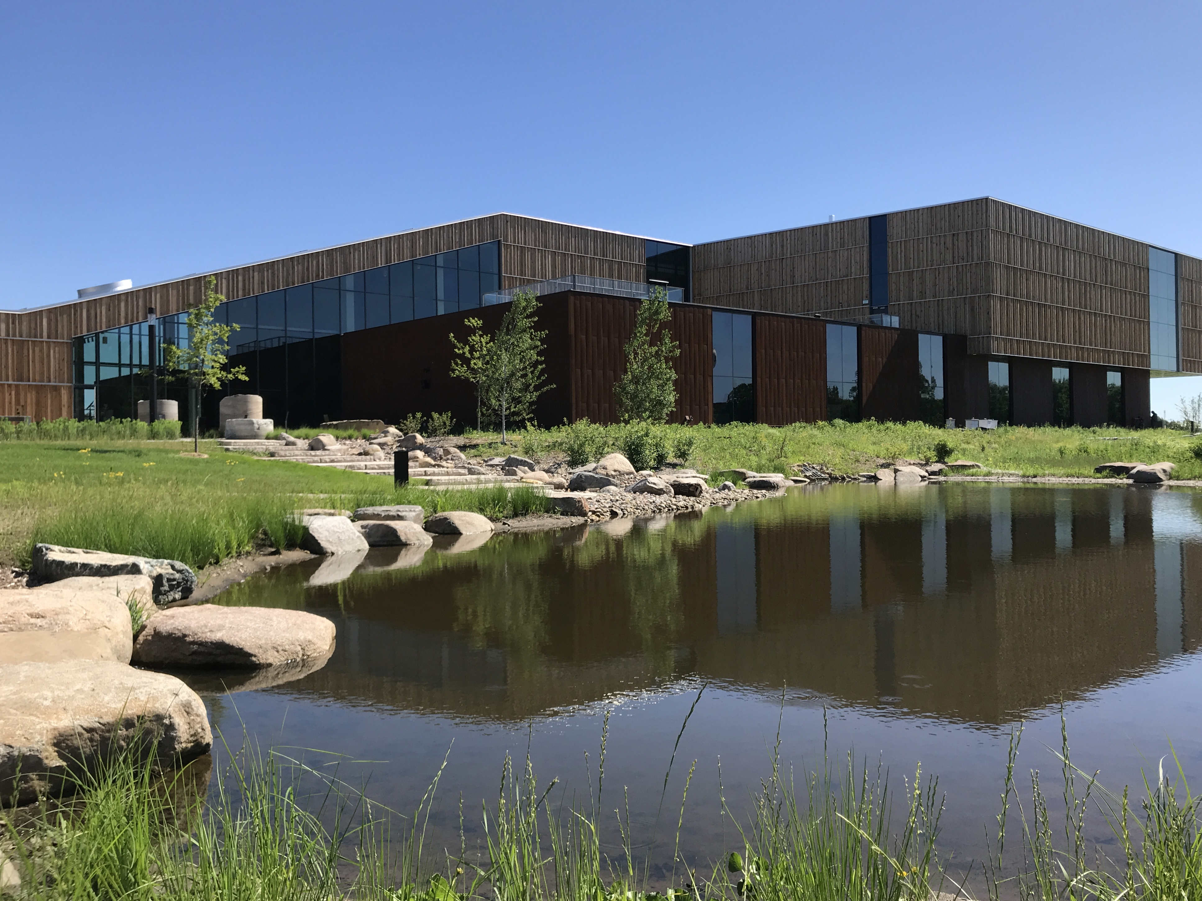 The exterior of the Bell Museum